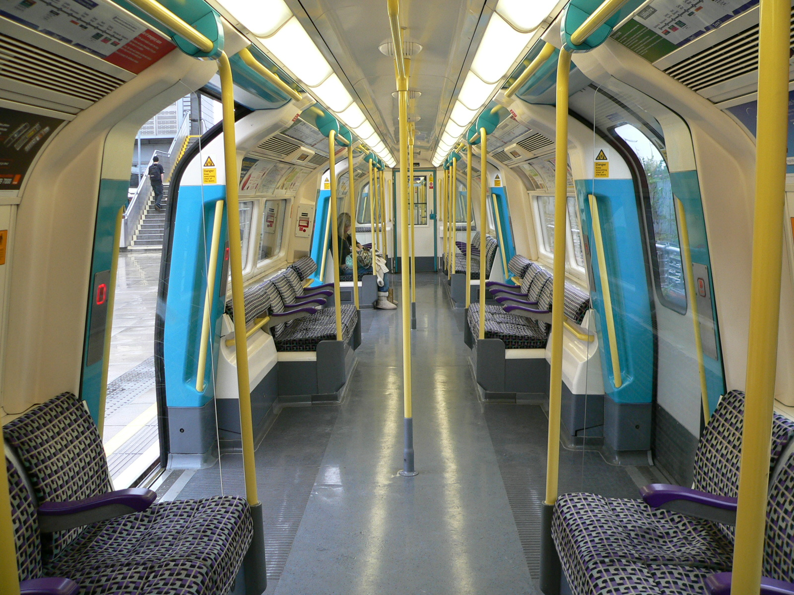 The interior of a London Underground 1996 tube stock Jubilee Line train at Stratford station on 24 October 2005.